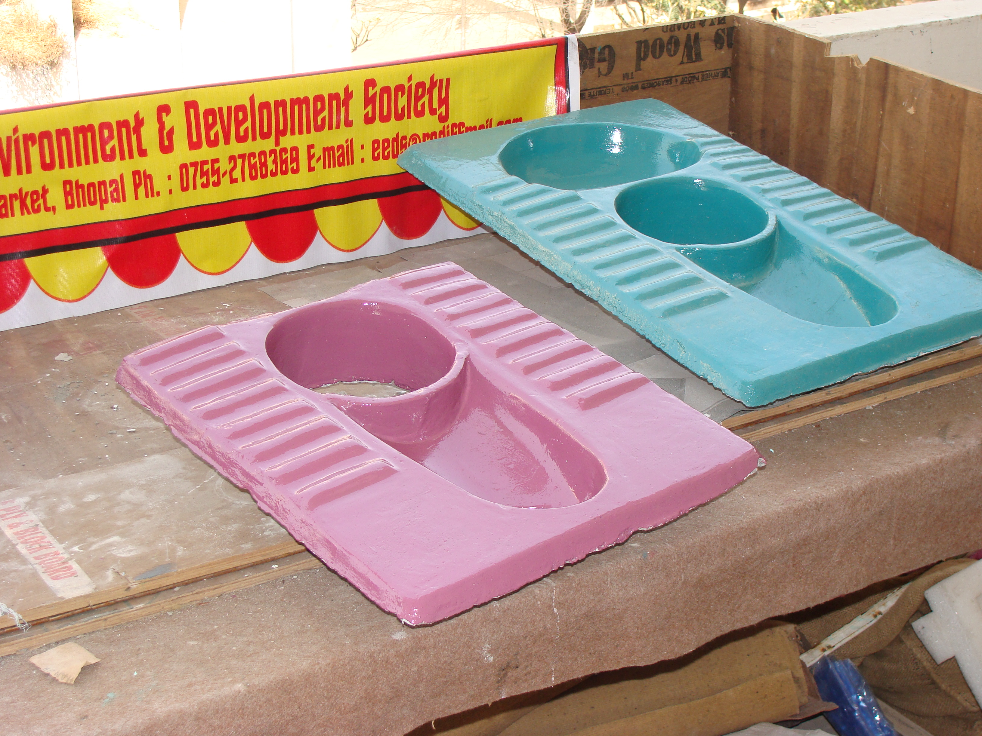 Photo by: India: EEDS NGO Energy, Environment and Development Society (EEDS) Ajit Kumar Saxena